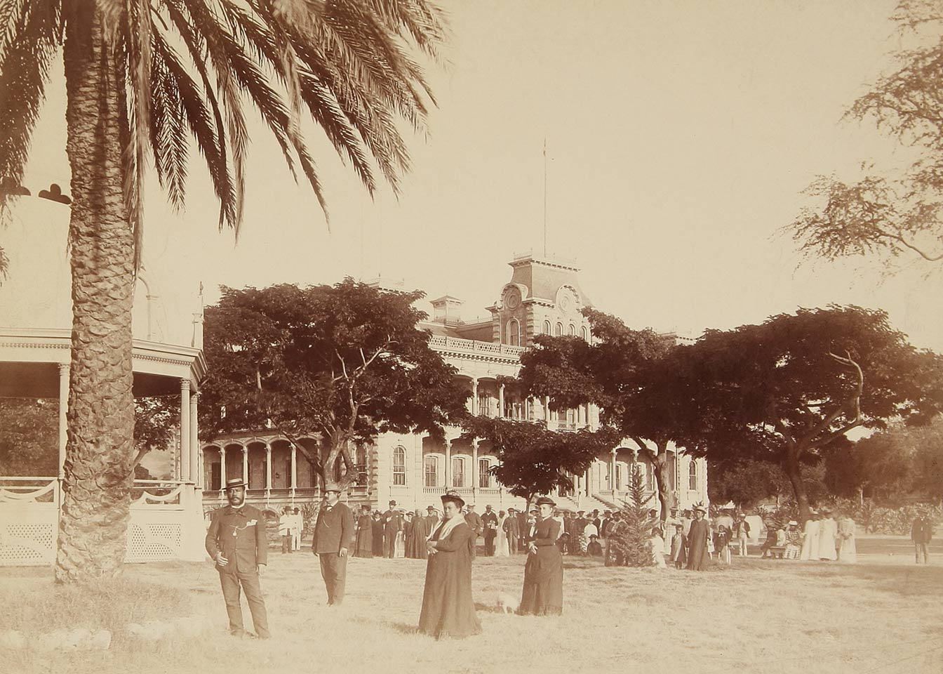 King Kalakaua and Queen Kapiolani admiring the Iolani Palace grounds with Col. Charles Hastings Judd, Puuku (Chamberlain), and Antoinette F. Manini Swan, Wahinelawelawe (Chambermaid) [1].